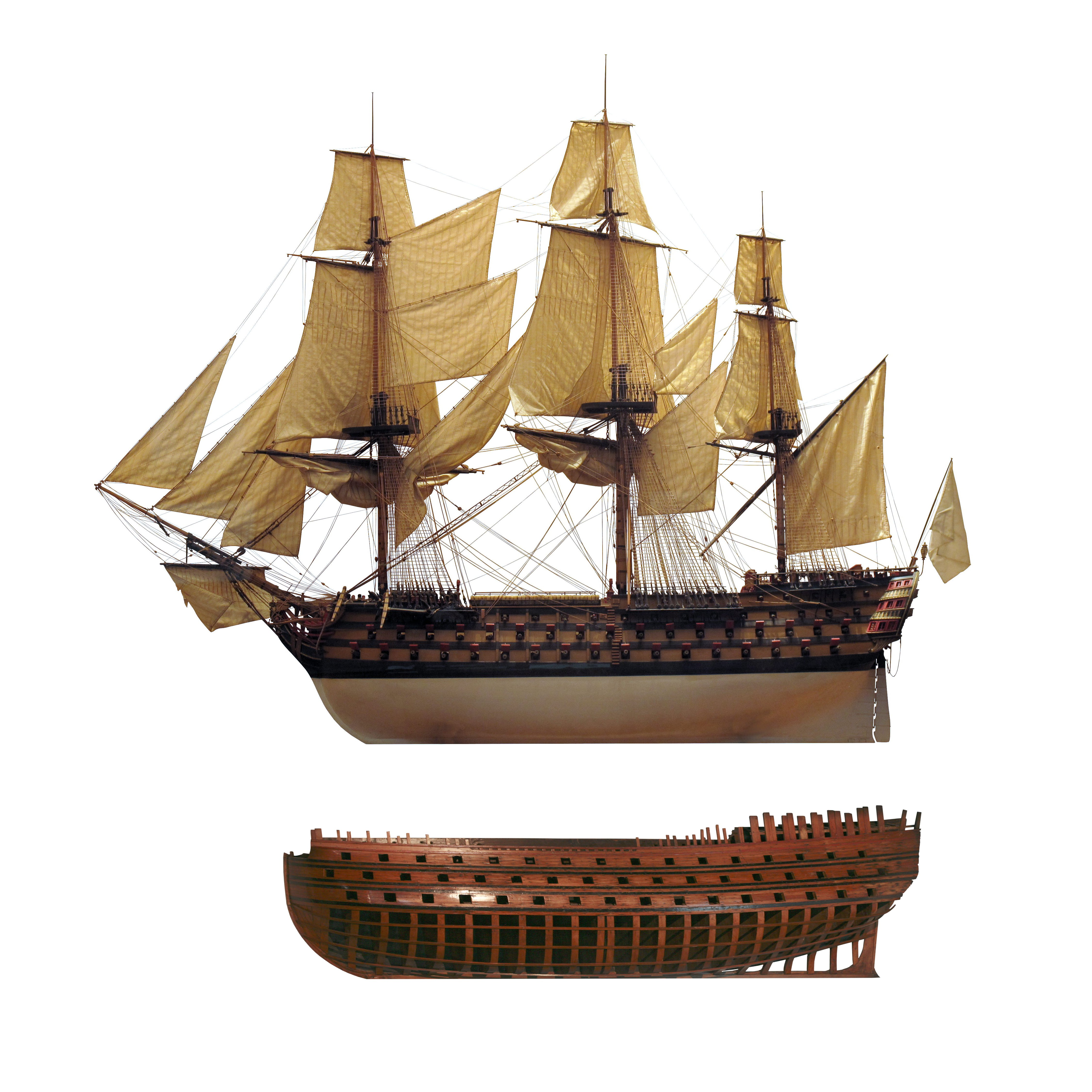 1/48 scale model of the Océan class 120-gun ship of the line Commerce de Marseille, on display at Marseille naval museum, combined with a half-hull of a generic Ocean-type 120-gun ship of the line on display at Brest navl museum.